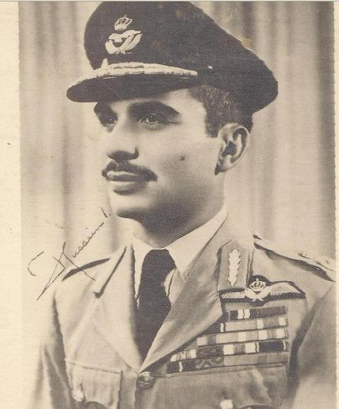 Autographed Photo from Personal Collection